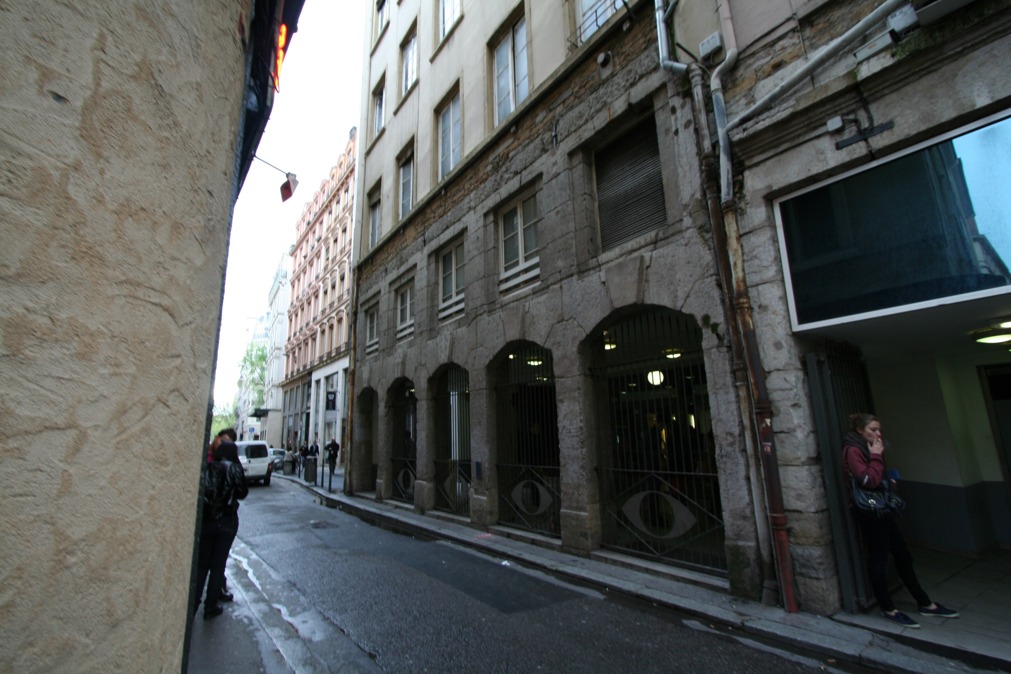 Rue Thomassin, 2nd arrondissement of Lyon, Lyon, France